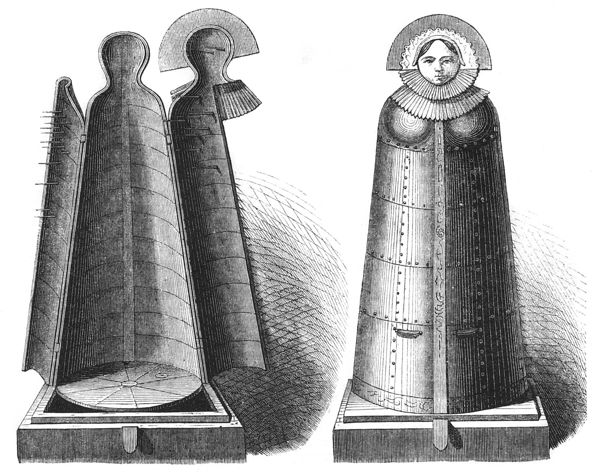 no caption